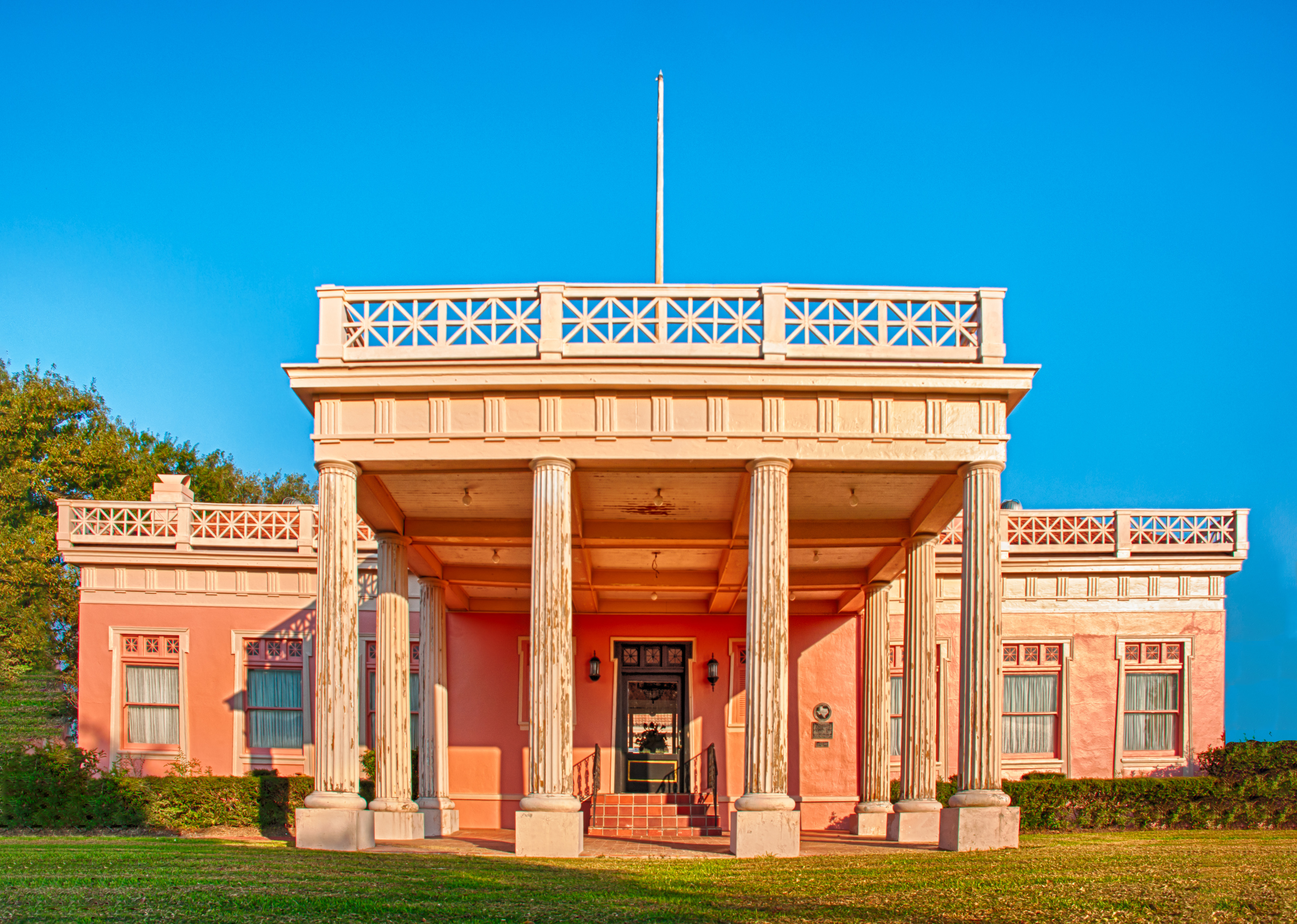 Pompeiian Villa The Pompeiian Villa, nestled right beside the seawall in downtown Port Arthur shines brightly in the morning sun.